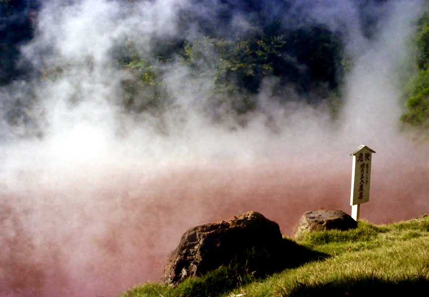 Beppu, Chinoise Jigoku, 25. Oct. 1978